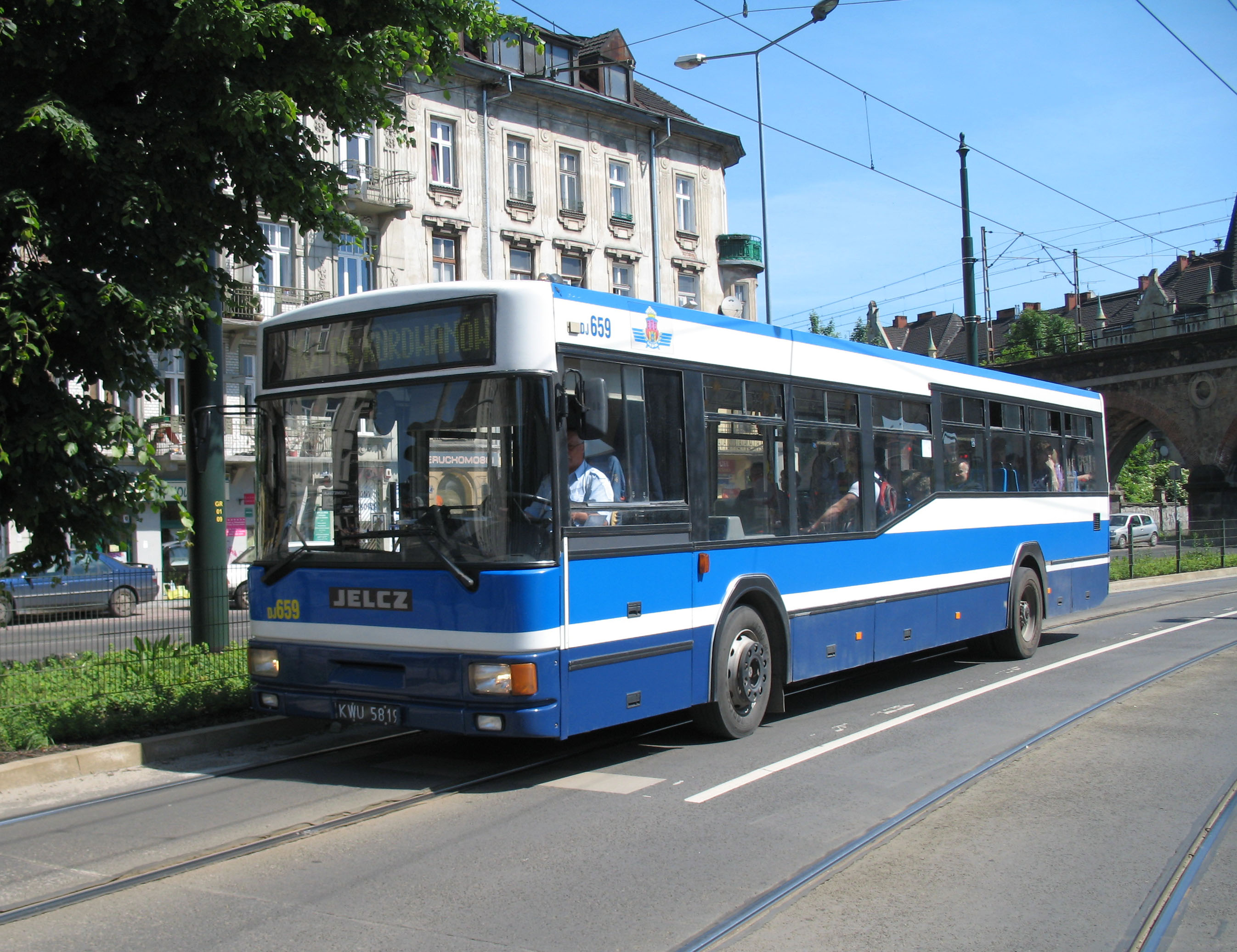 Jelcz M121MB bus (#DJ659) in Kraków, Poland. Built 1999, MPK Kraków operator.